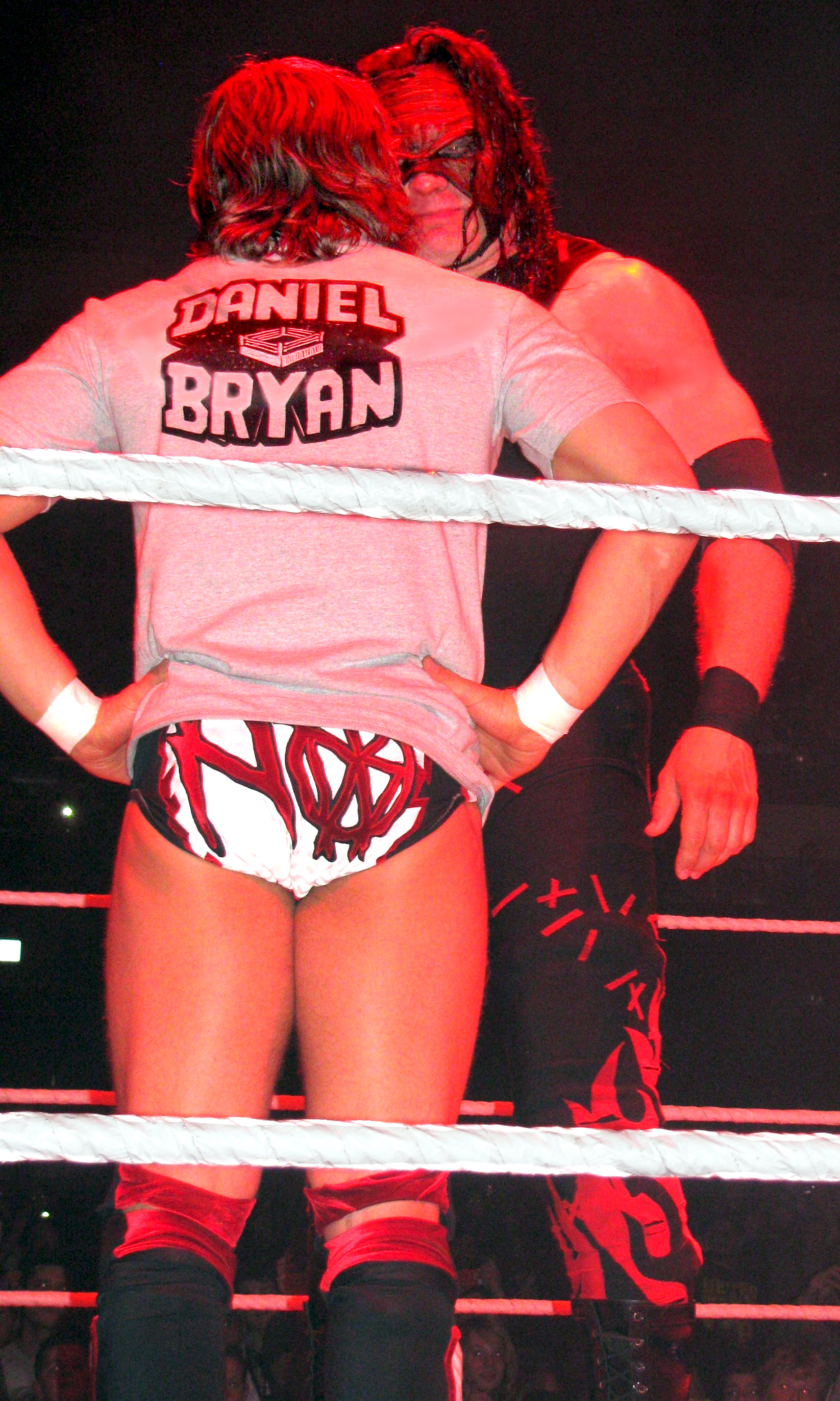 Daniel Bryan and Kane, which form Team Hell No, stare each other down during a WWE house show in Adelaide, South Australia on the 29 July 2013.